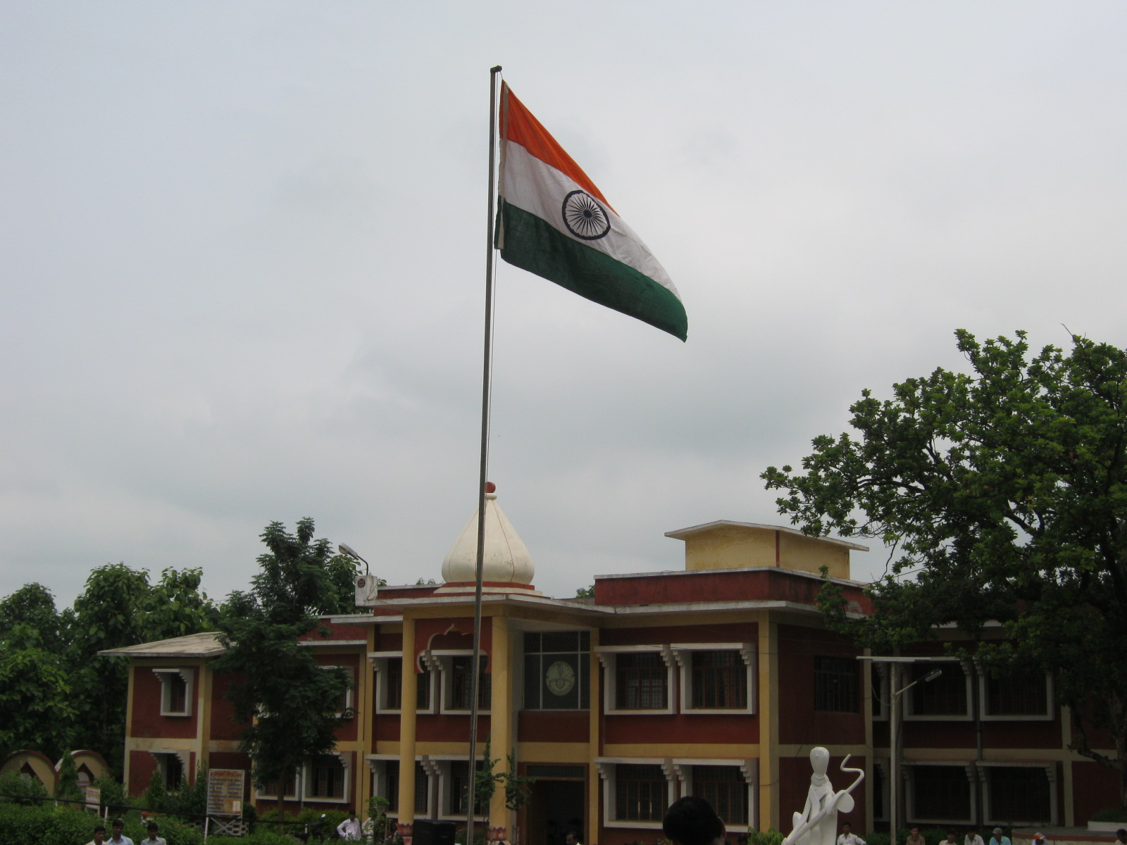 The main building of JRHU on August 14, 2010 with the Indian national flag hoisted